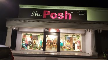 Sha Posh store in Rahwali Cantt, Gujranwala.